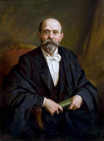 Portrait of Professor Giovanni Caruana (1866-1923), sitting on an armchair, holding a green book in his hand.